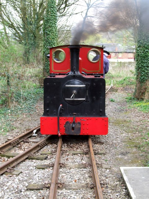 Golden Valley Light Railway, near Swanwick. Train ride - The 2ft gauge GVLR terminates near the Newlands Inn, which is closed and boarded up. Allen Civil built 0-4-2 Pearl 2 runs around its train.